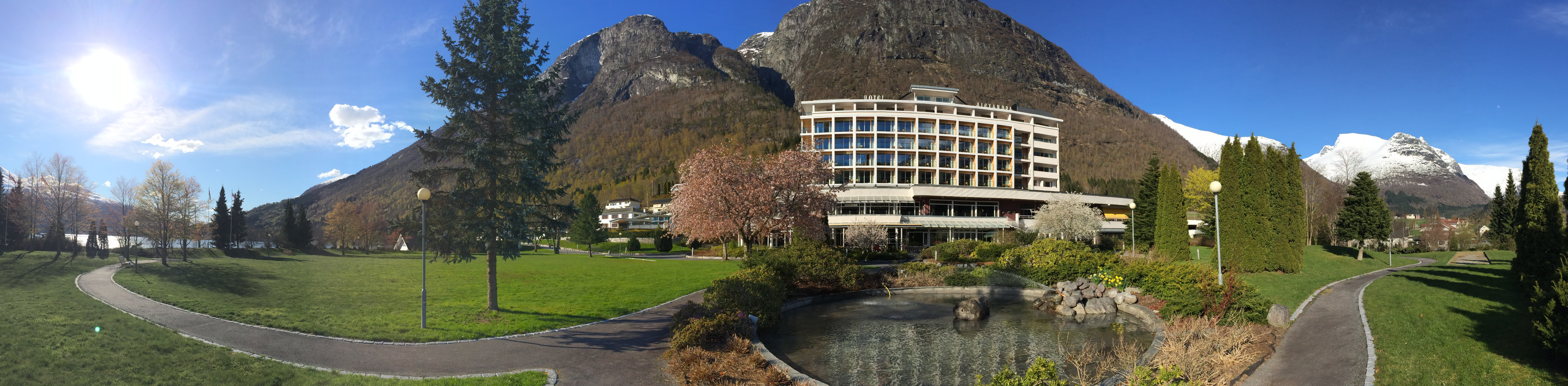 Fold-out-panorama of Hotel Alexandra in Loen, Stryn, Sogn og Fjordane, Norway. 28th April 2015. (iPhone panoramic photo, distortion may occur in details and continuity.)